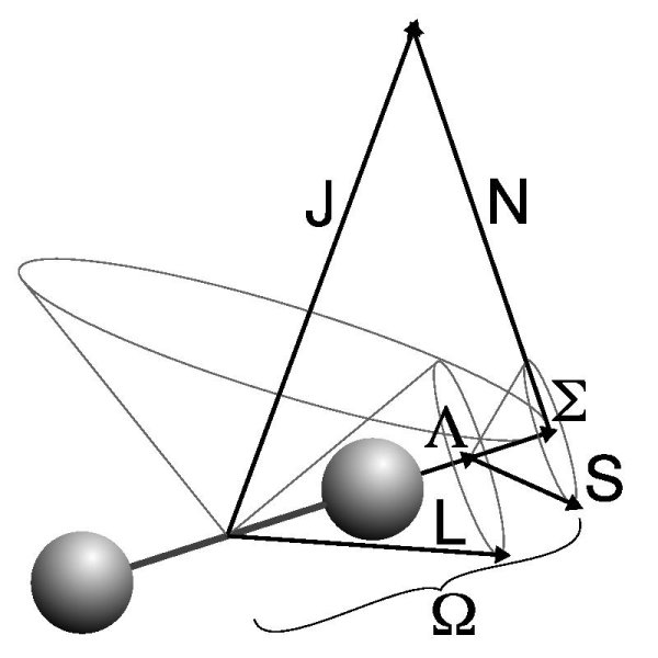 Sketch showing the Hund coupling case a)